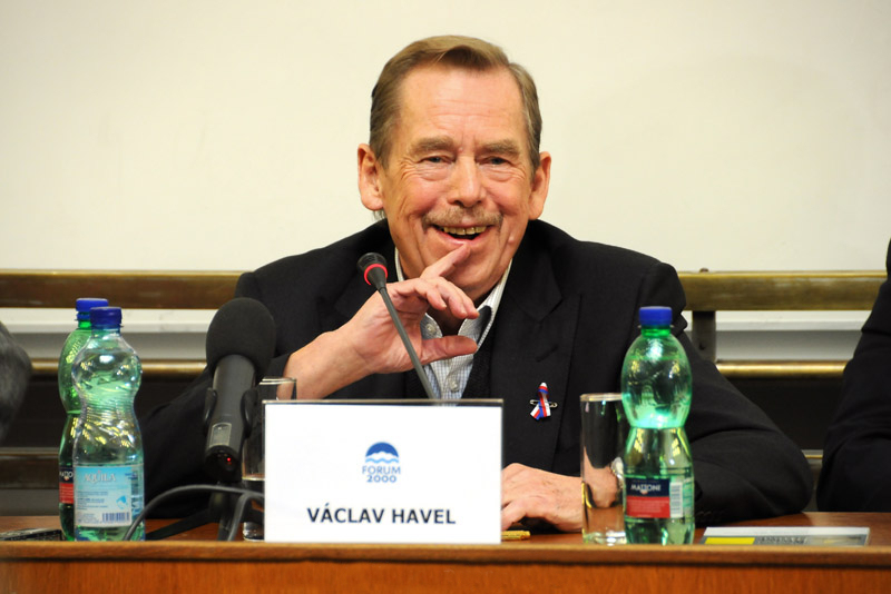 Václav Havel during his speech at the Freedom and its adversaries conference held in Prague on 14th of November 2009.